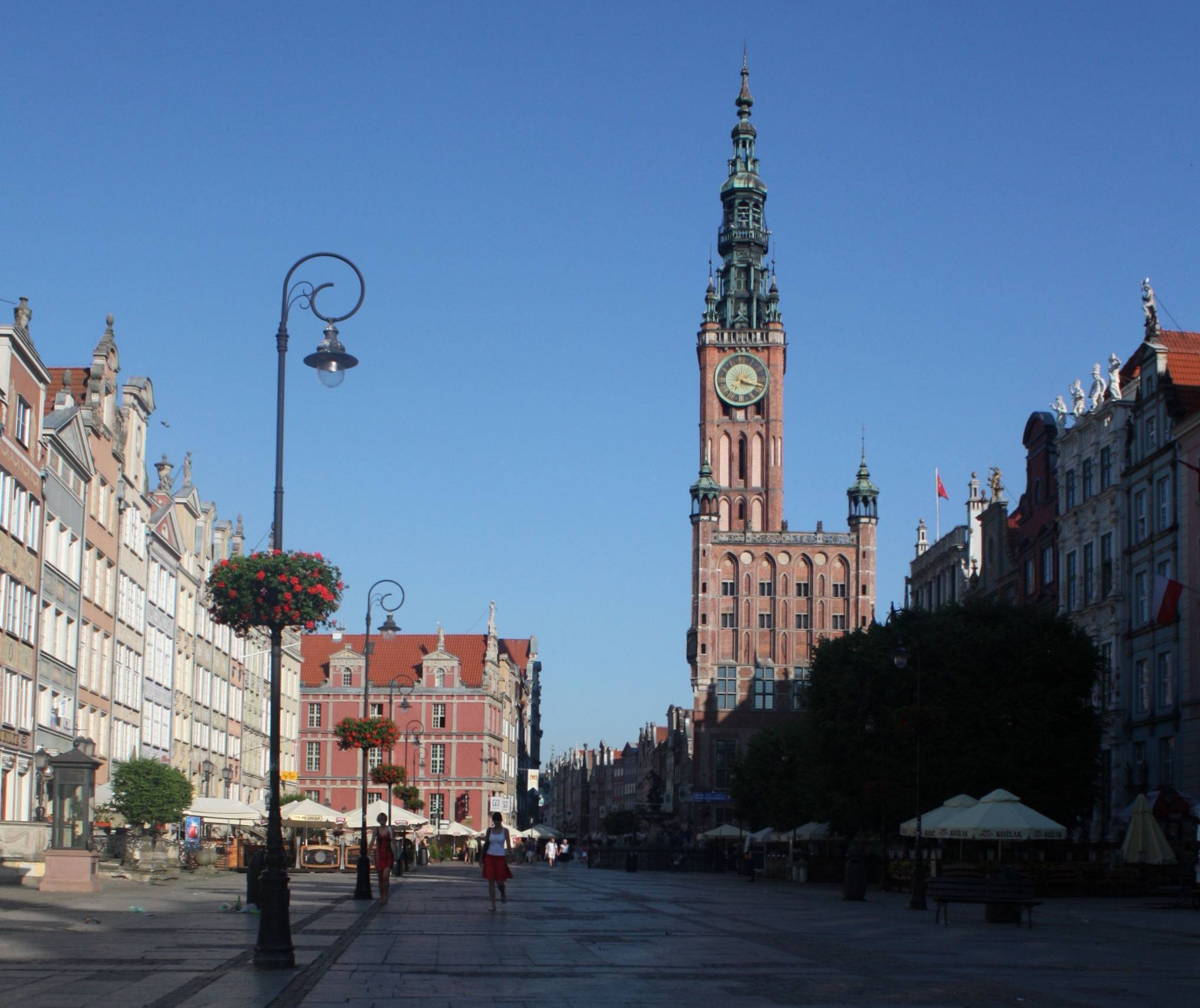 Gdańsk, Longer Market with Main Town Hall